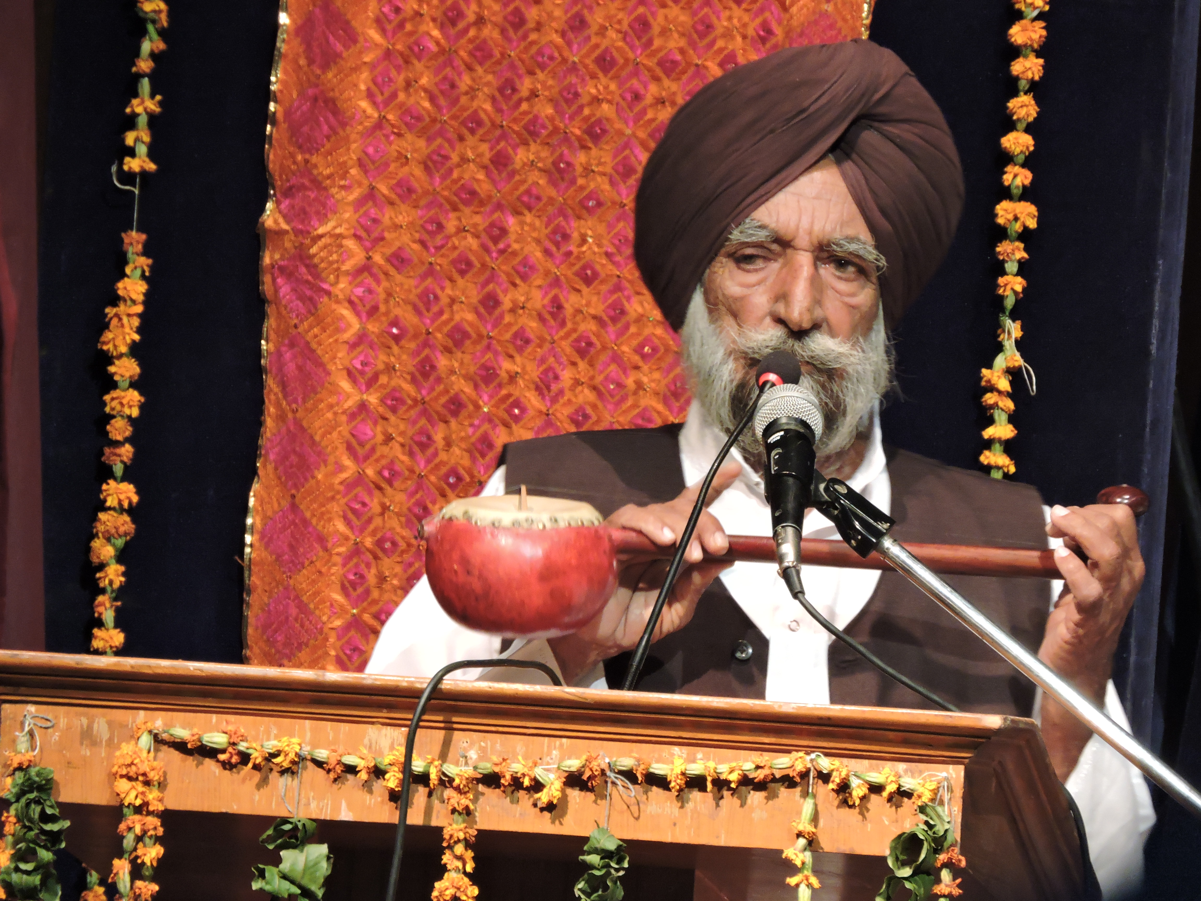 Amarjit Gurdaspuri, active IPTA member and Revolutionary singer artist of Punjab, India